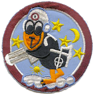 Emblem of the 30th Tactical Reconnaissance Squadron